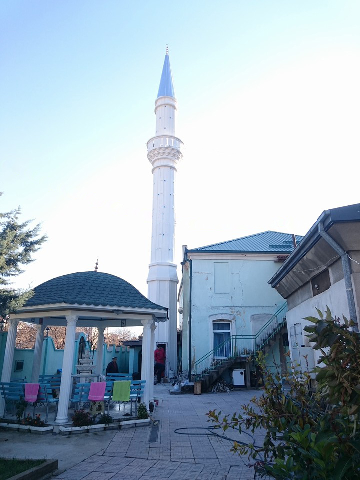 Dudi Hanum mosque in Kocani, Macedonia